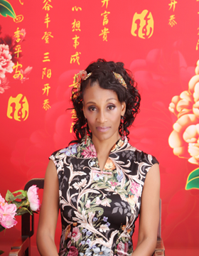 This is a photo of Angela